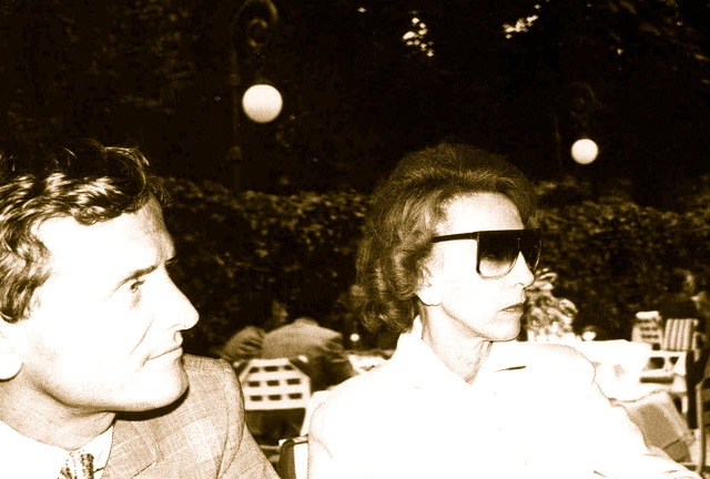 Thomas Ammann and Ina Ginsburg